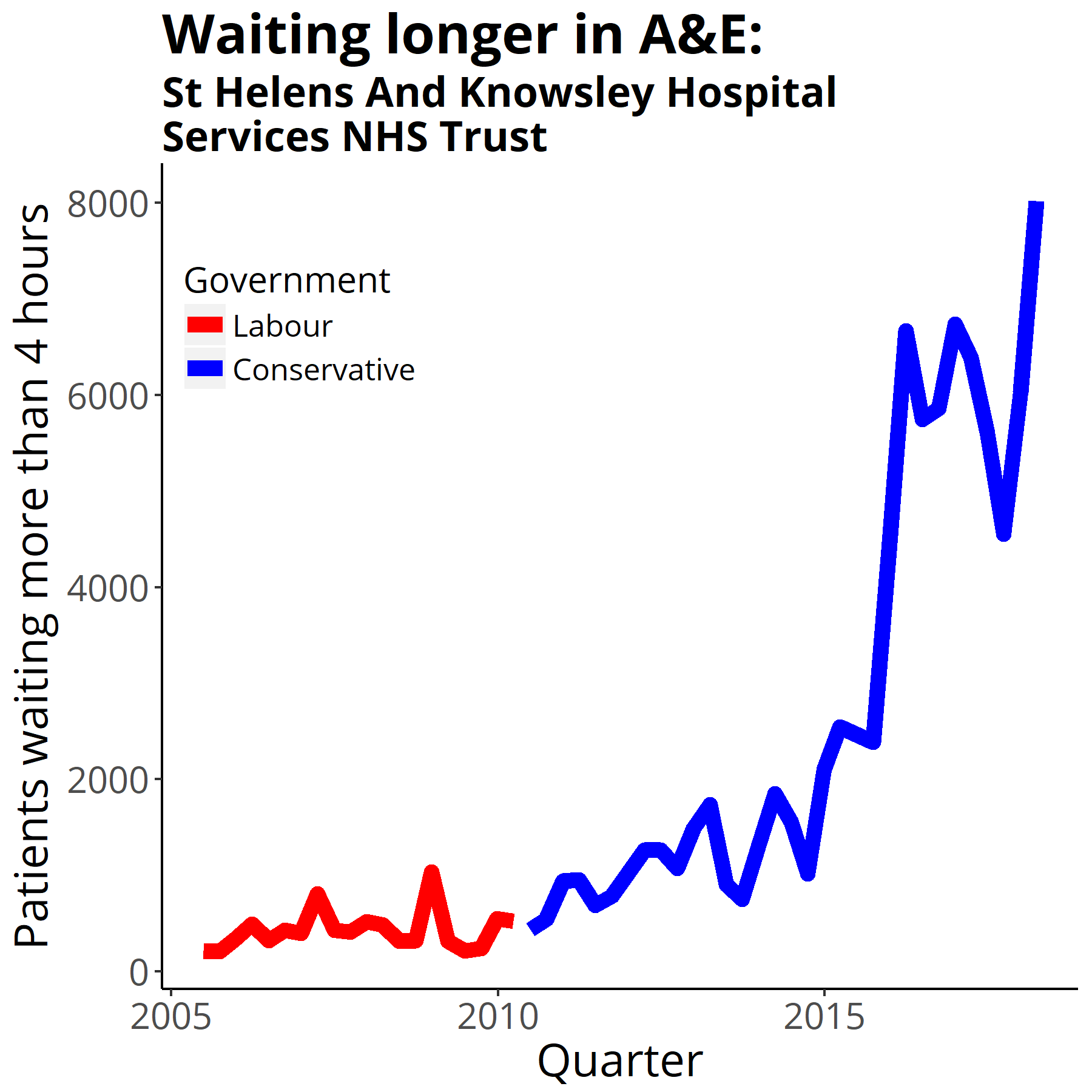 Four-hour target in the emergency department quarterly figures from NHS England A&E waiting times and activity. NHS England. Retrieved on 24 April 2018.